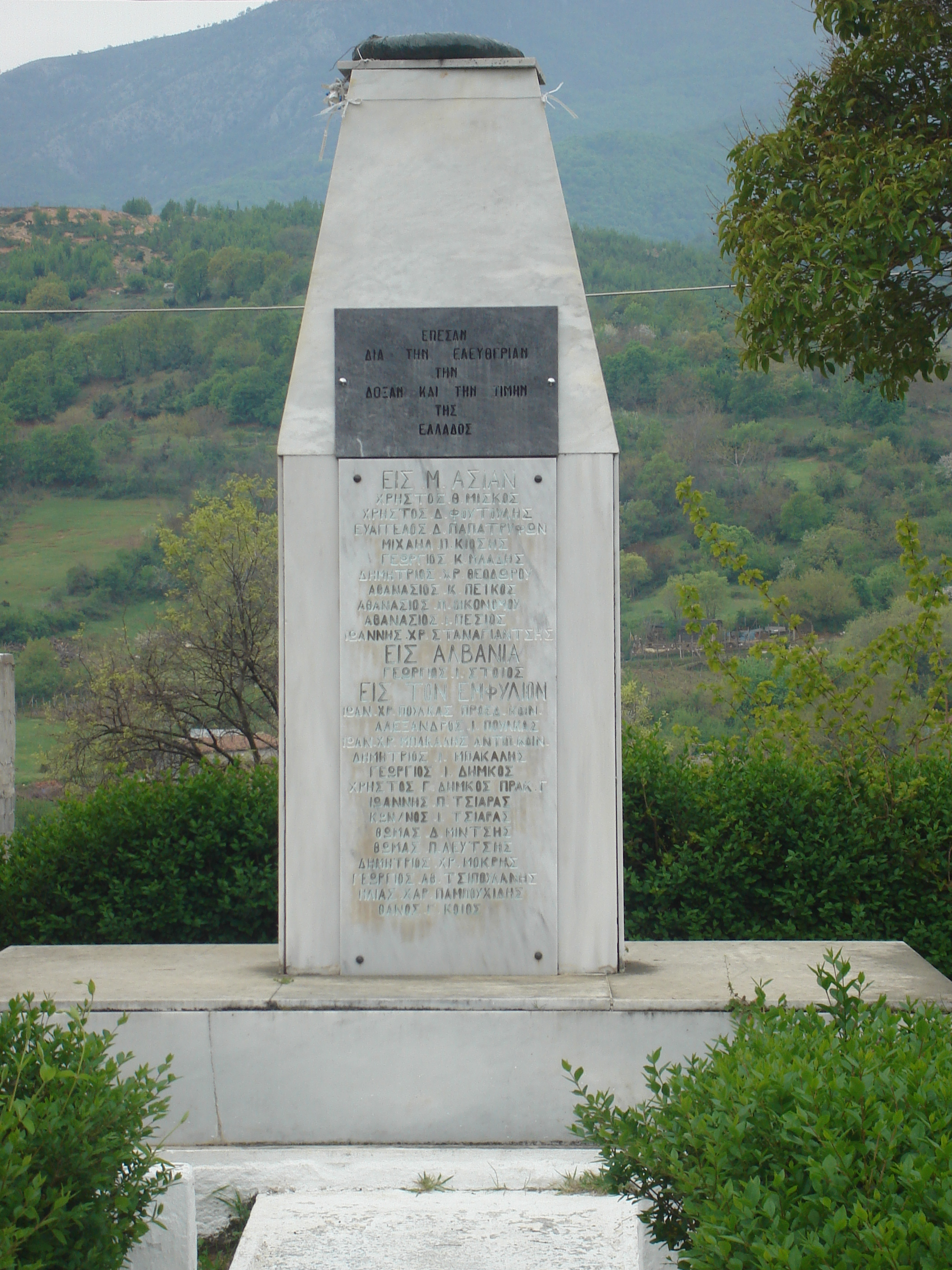 Mmeorial in Griva, Kilkis, Greece